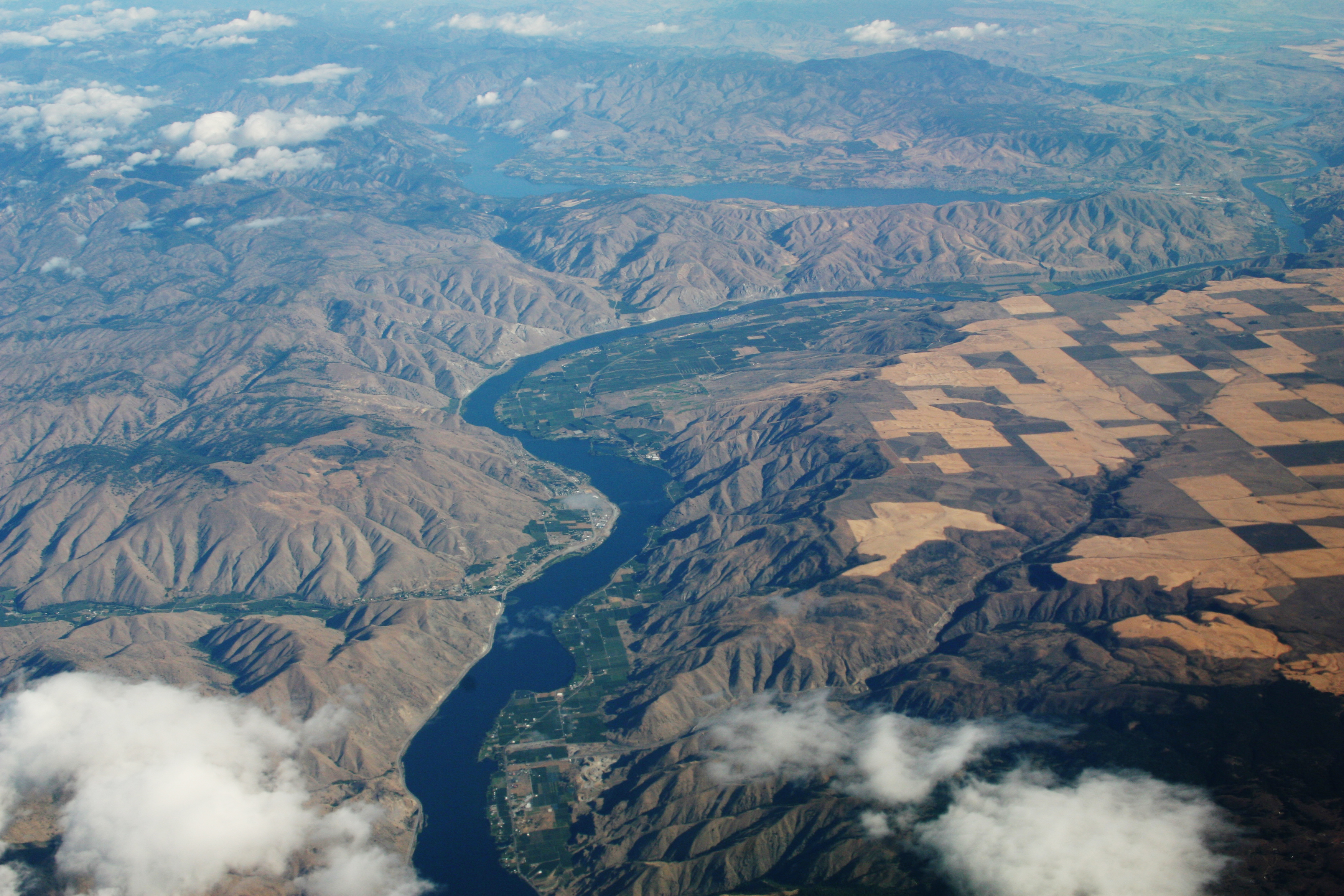 Farmland on the inside of a bend in the Columbia River. In the background, Lake Chelan. Highway 97 flanks the Columbia on both sides. Note that the farmland is on flats: one on river silt, and the other atop the edge of the Colombia Plateau . Between the two, and under the plateau farmland, is one of the largest outpourings of lava in the known history of the world.The town of Entiat is on the left or west side, in the middle of this shot. Corbaley Canyon is on the right, and forks into Pine Canyon and McGinnis Canyon in the high plateau on the right. Moody Canyon comes in below Entiat on the left. Dick Mesa is beyond that. Wenatchee National Forest is on the left as well.